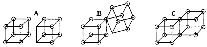 Atoms according cubical atom model